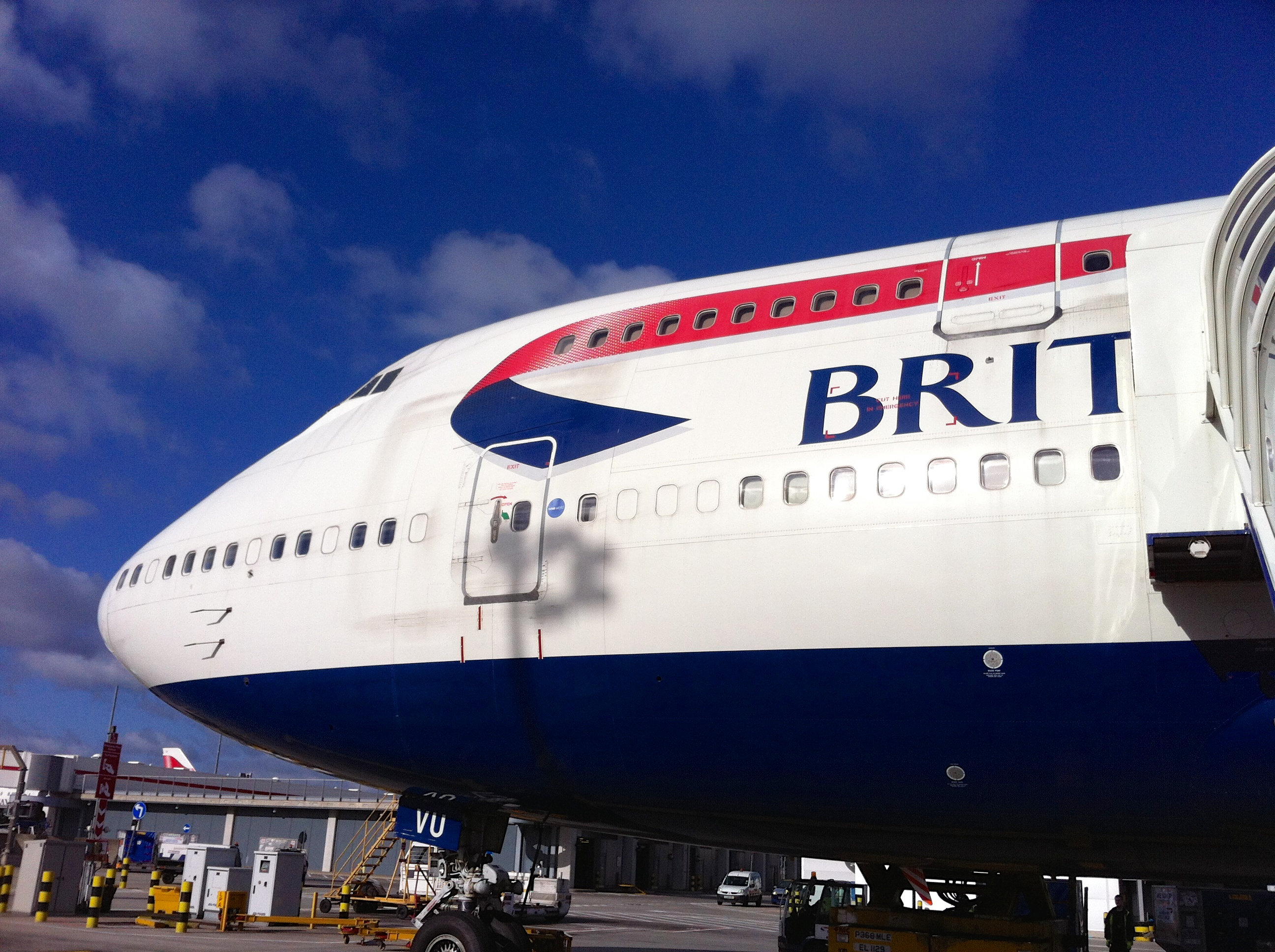 British Airways 747.